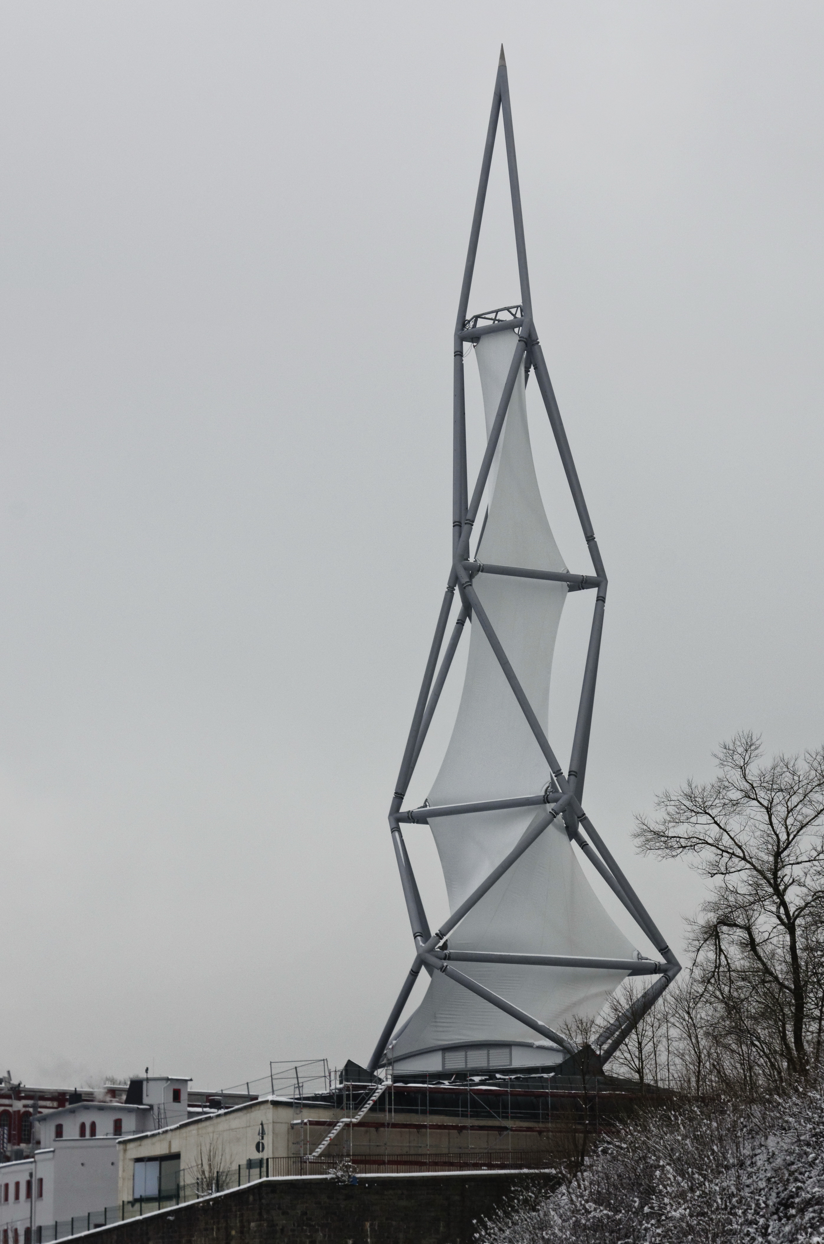 Tower of the “Phänomenta” in Lüdenscheid, Germany.